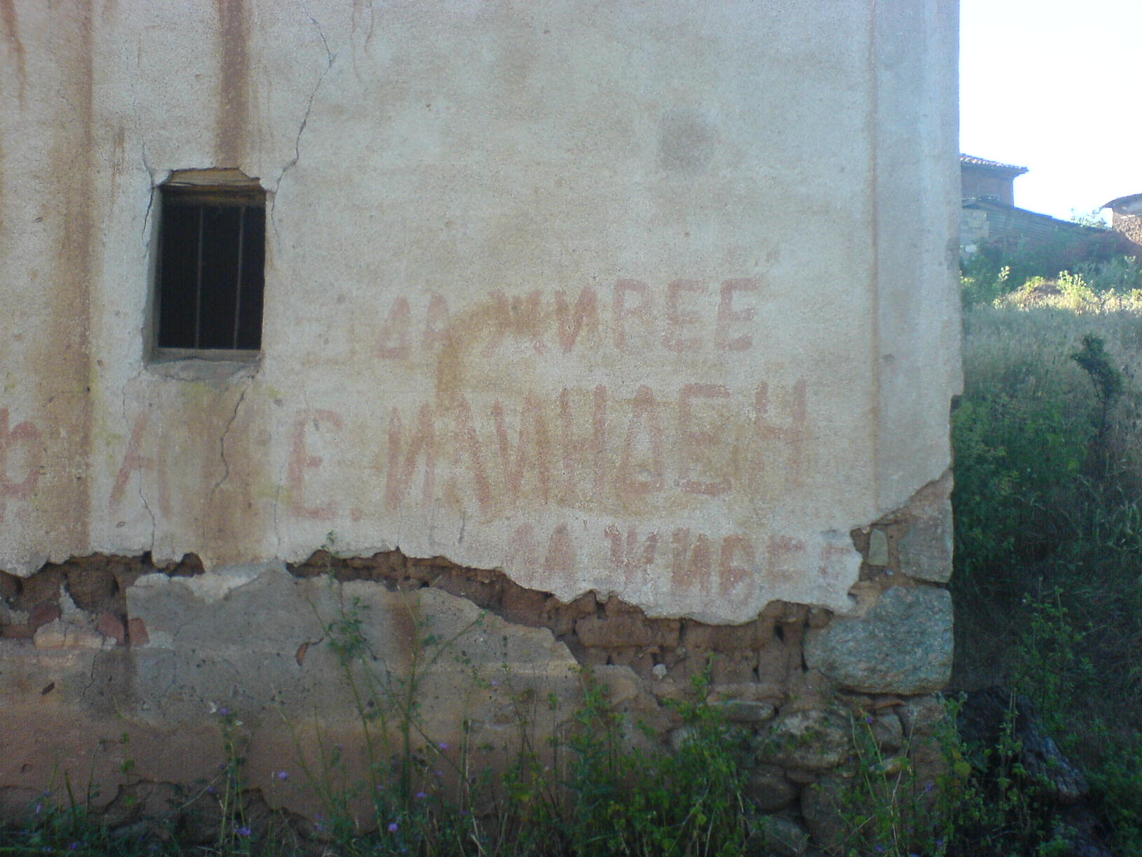 Village of Drenoveni or Kranionas, Macedonia, Greece.